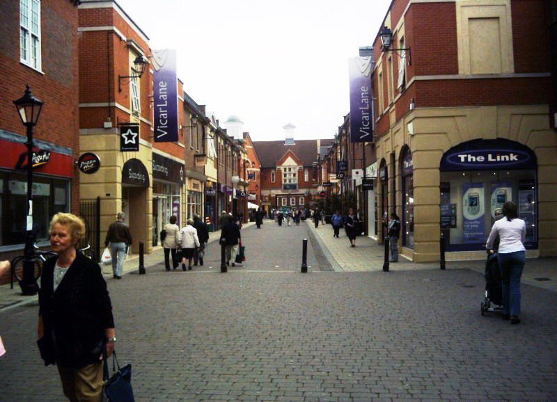 Vicar Lane after it was re-developed.